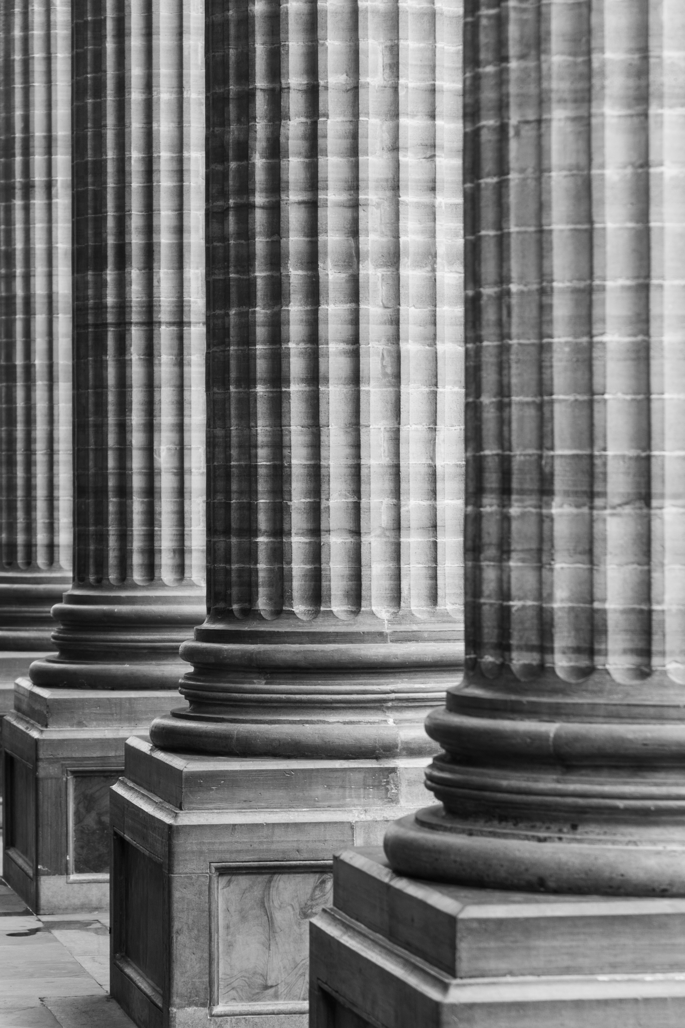 Columns at Teatro Juarez in Guanajuato, Mexico. This is a photographic example of rhythm, volume and texture as a result of directional lighting.